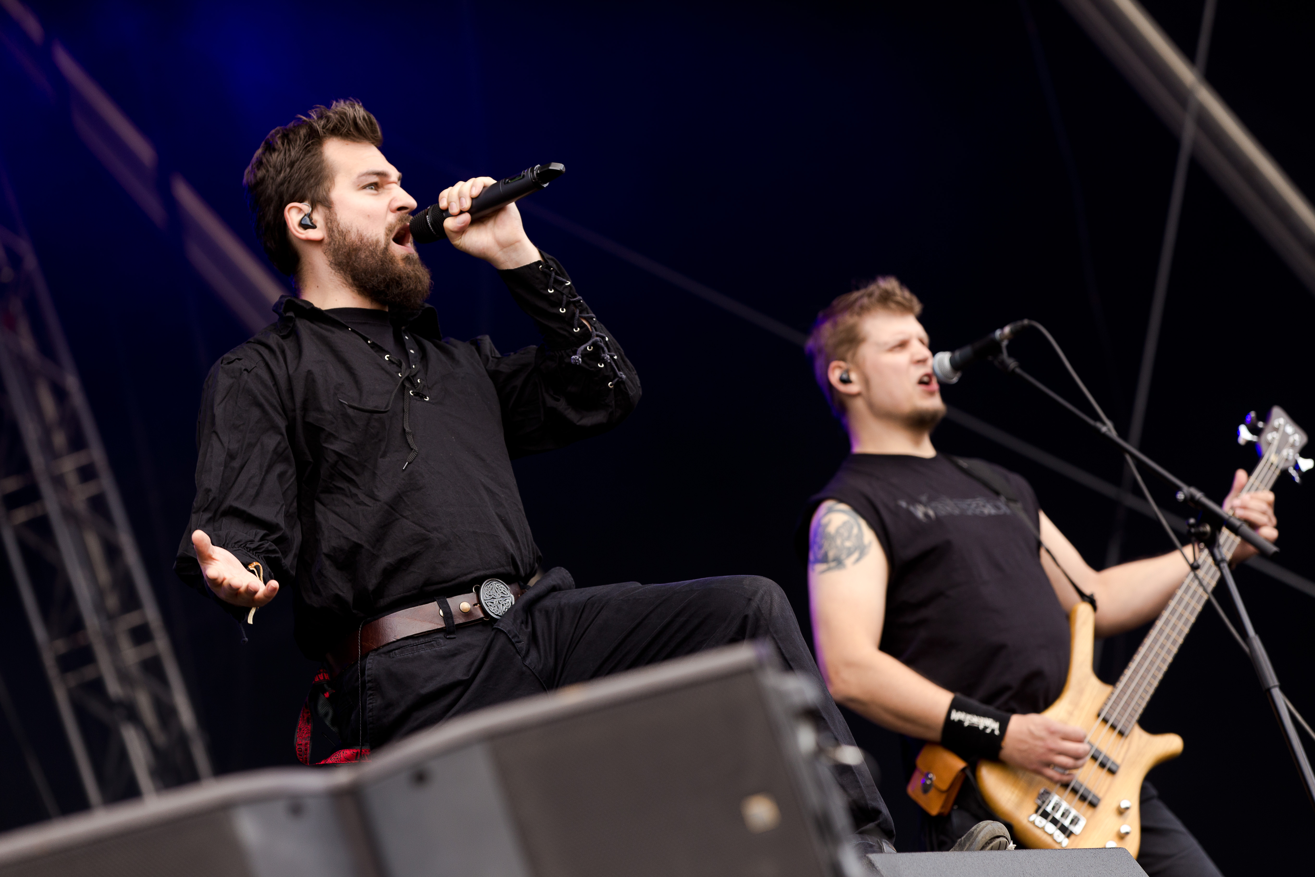 The German power metal band Winterstorm at the Rockharz Open Air 2016 in Ballenstedt/Germany.